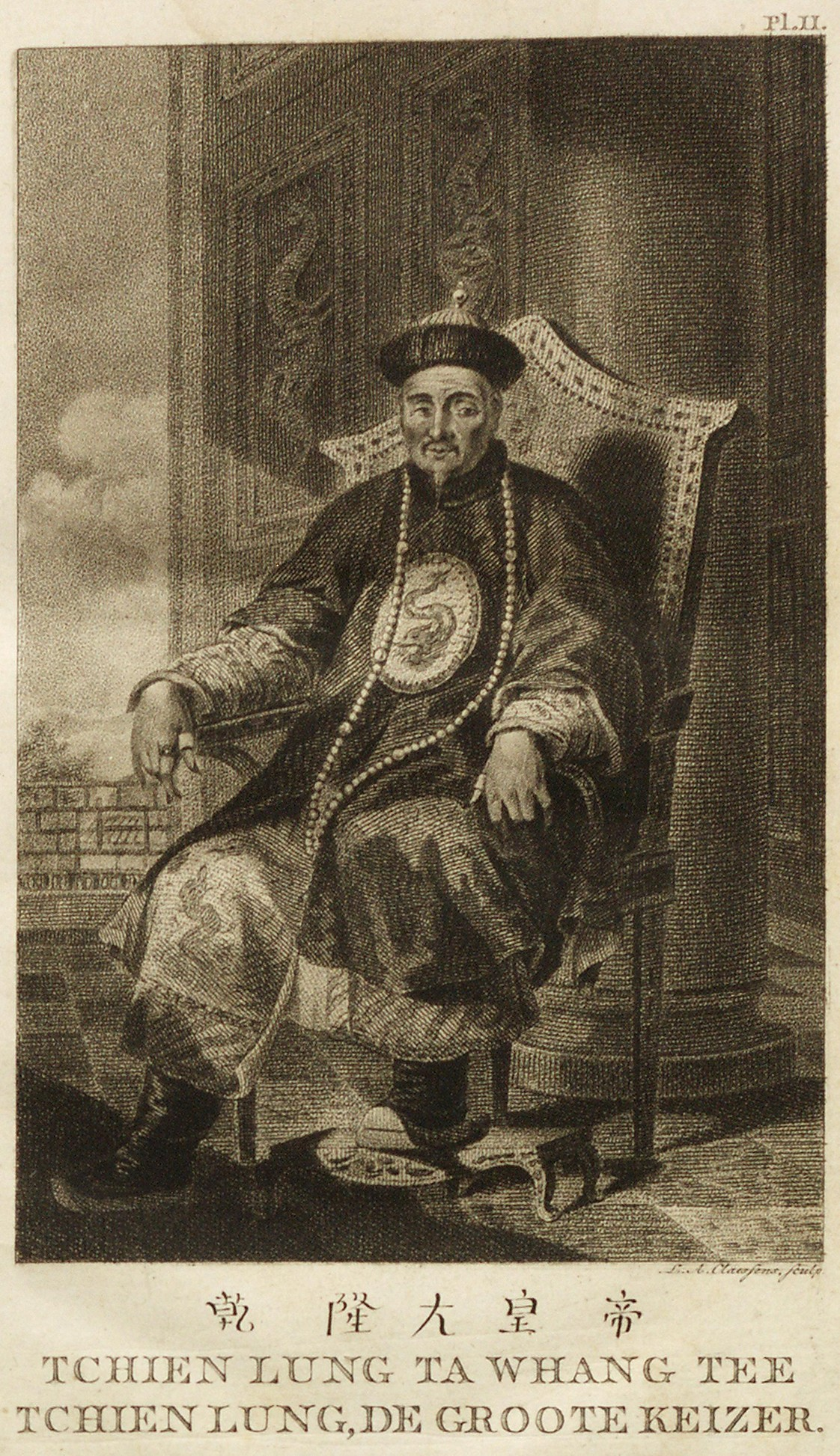 Illustration from the 1798 Dutch translation of George Leonard Staunton (1797): An authentic account of an embassy from the King of Great Britain to the Emperor of China